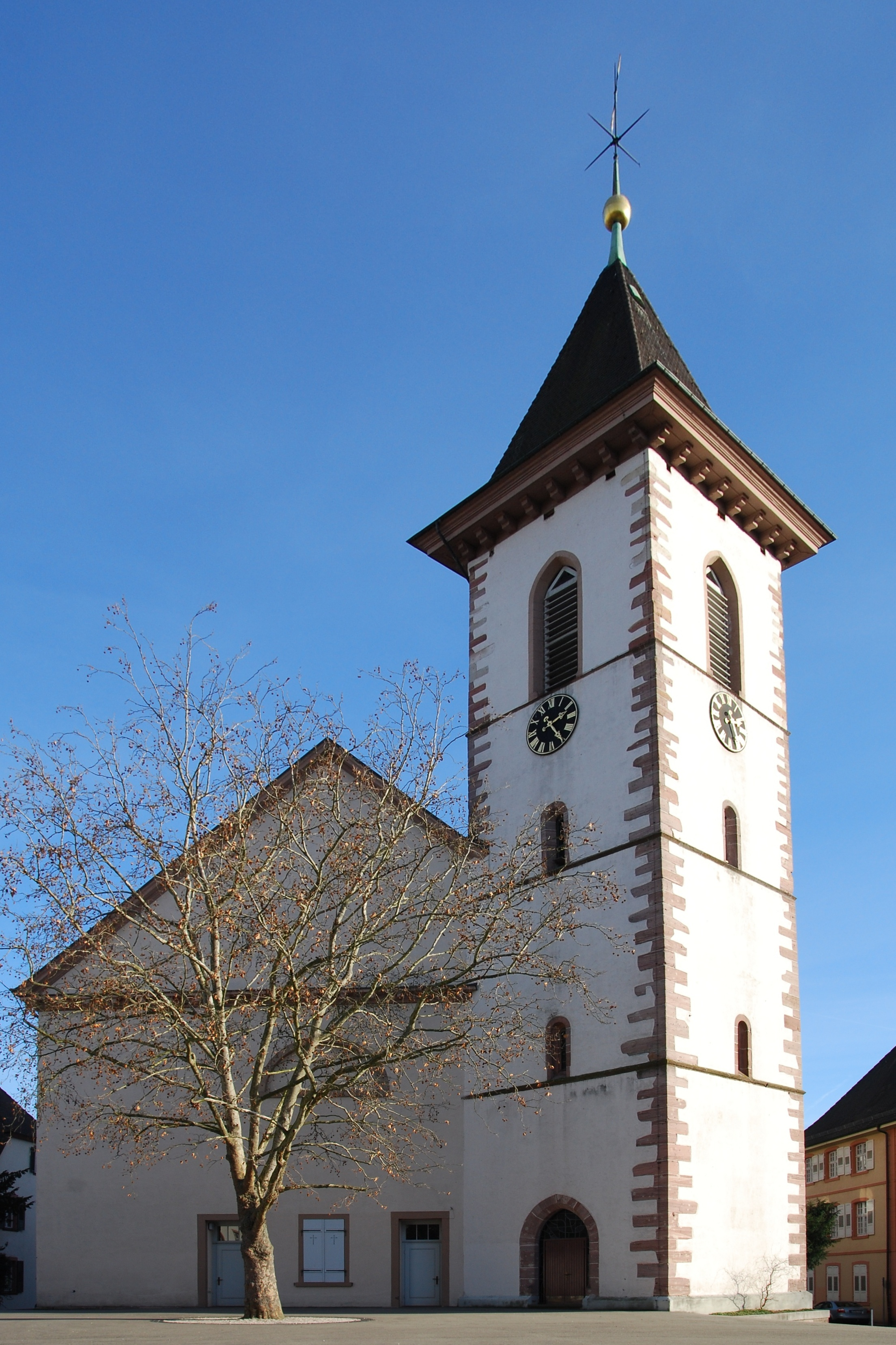 The Stadtkirche in Lörrach, Baden-Württemberg